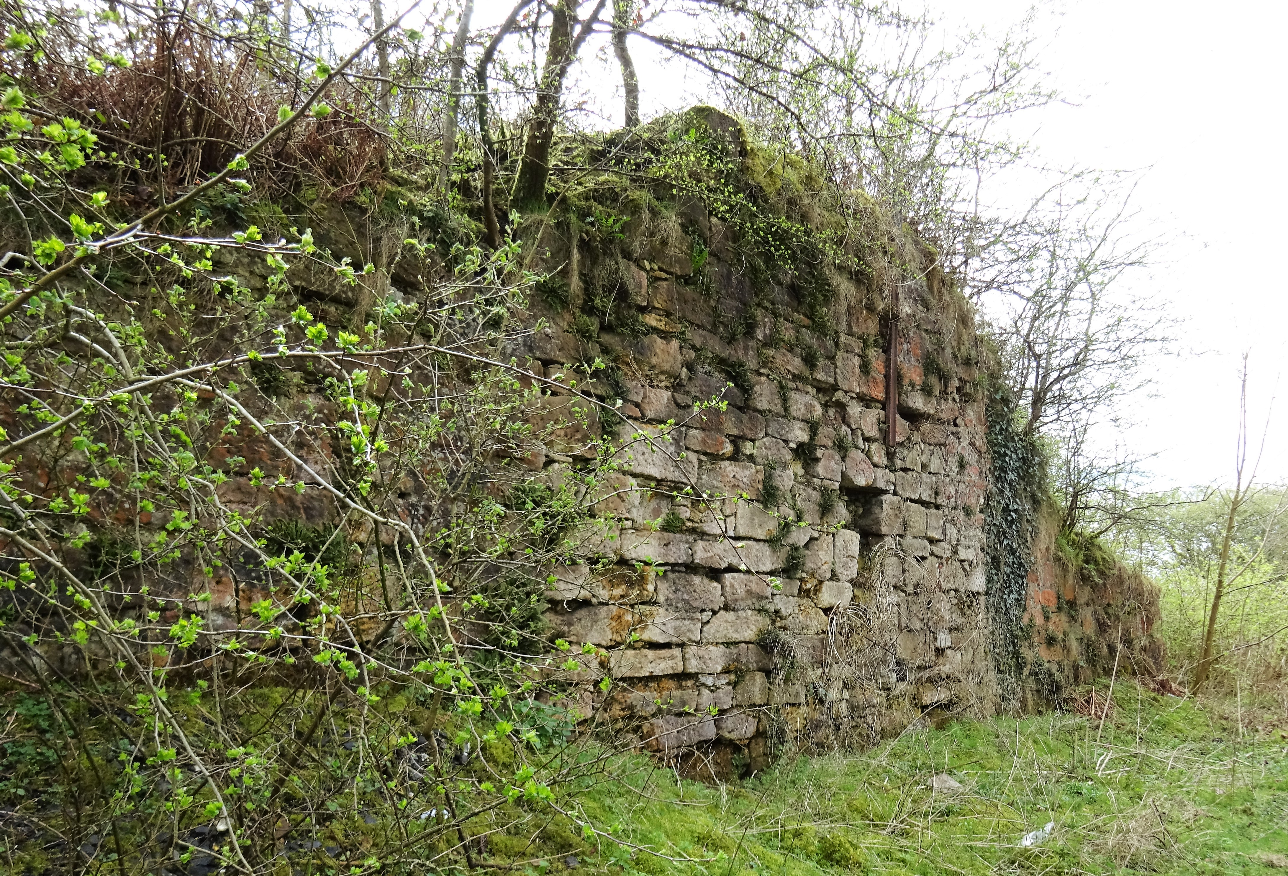 Blacksyke Lime Kilns, Caprington, East Ayrshire - end walling - view from the north-east. Out of use before 1895.